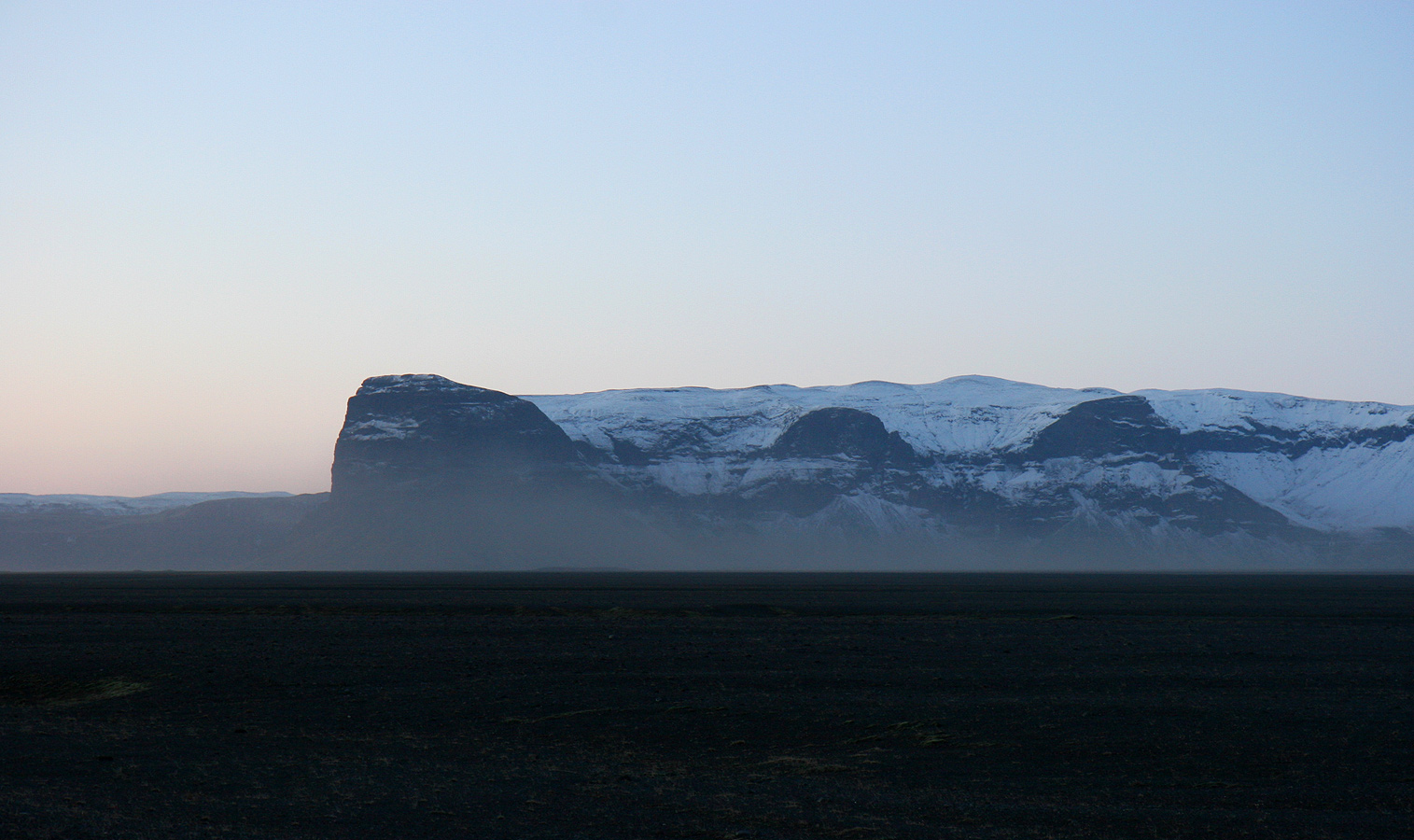 Lómagnú with sand blowing over Skeiðarársandur, November 24 16:50 Iceland, November 2007 Photo by me user:debivort (or my friend who has given me permission to freely license our photos from Iceland)